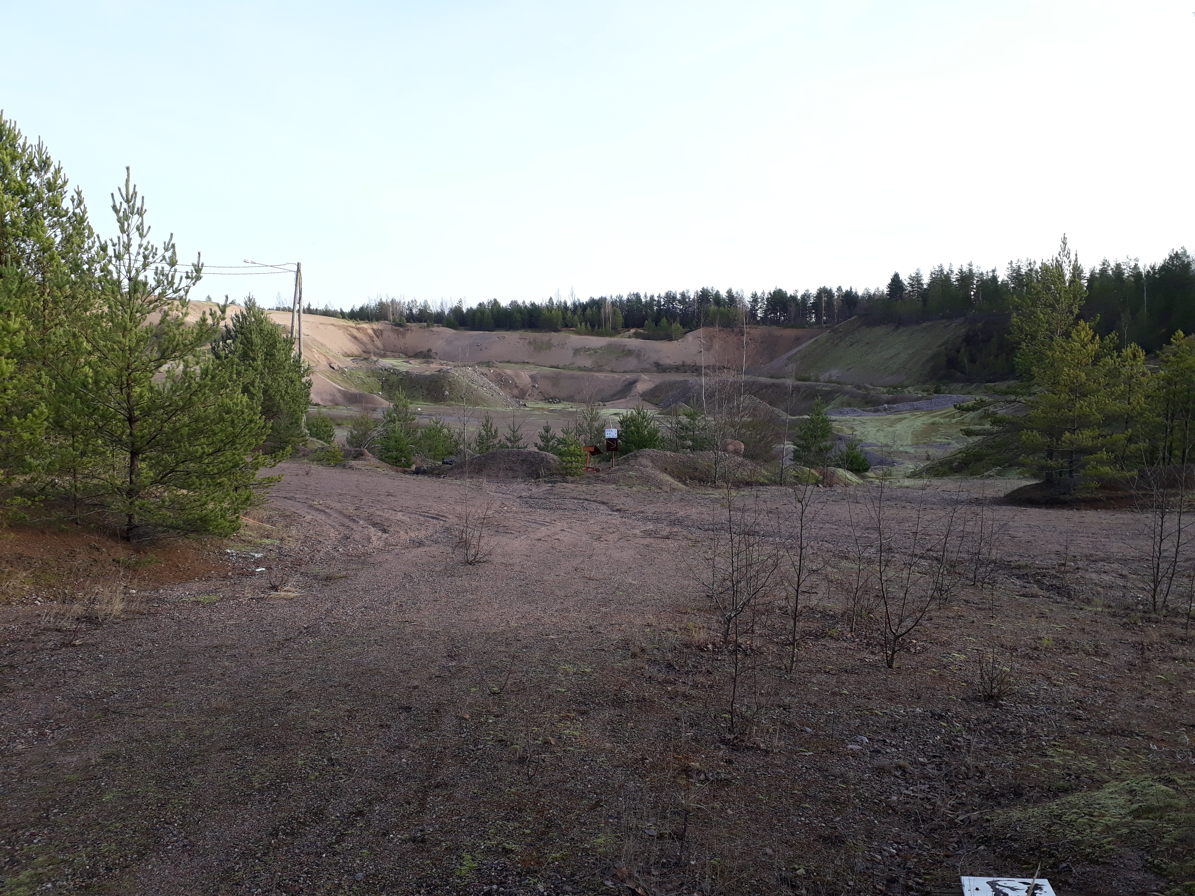 Kaukola gravel pit in Salo, Finland